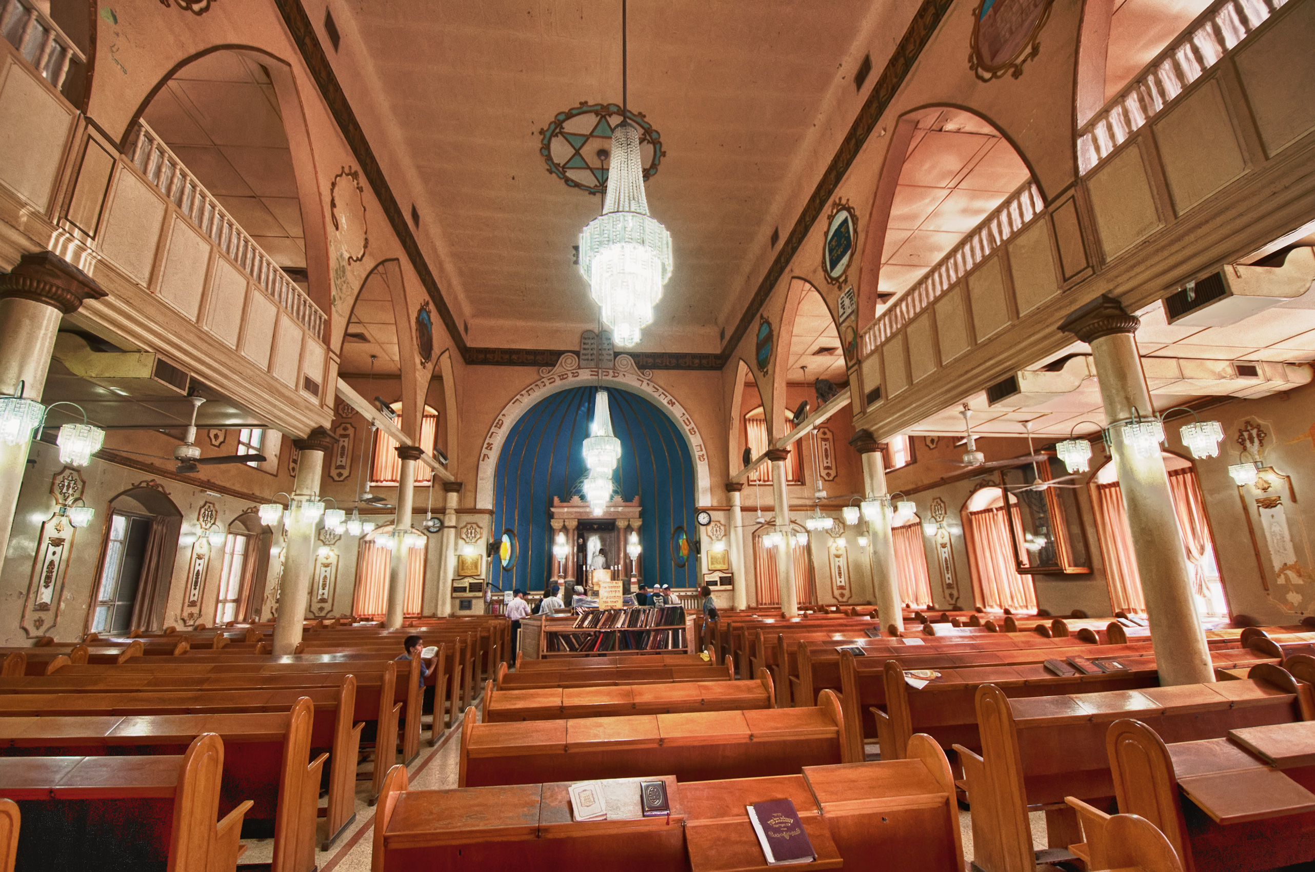 Interior of Petach Tiqwa's (Israel) Great Synagogue, as seen from Ground Floor